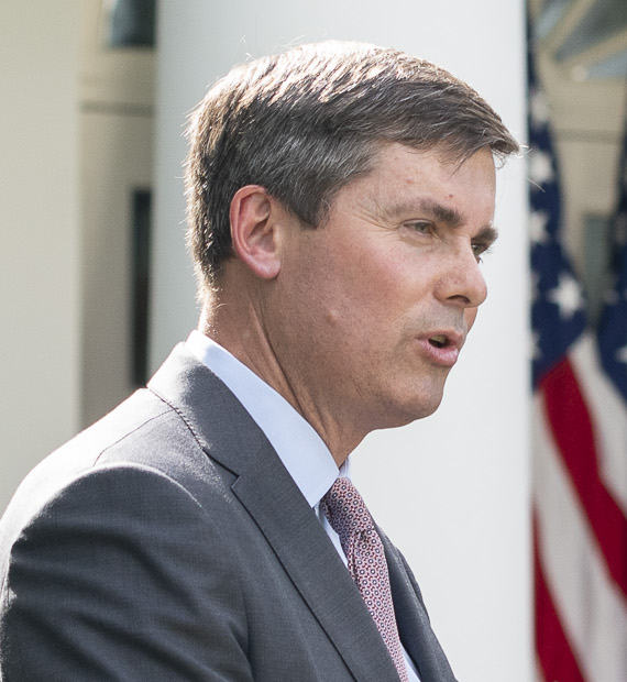 President Donald J. Trump listens as David Ricks, chairman and CEO of Eli Lily and Company, addresses his remarks on protecting seniors with diabetes Tuesday, May 26, 2020, in the Rose Garden of the White House, where President Trump announced the results of the Part D Senior Savings Model that will provide Medicare patients with new choices of Part D plans that offer insulin at an affordable and predictable cost. (Official White House Photo by Joyce N. Boghosian)